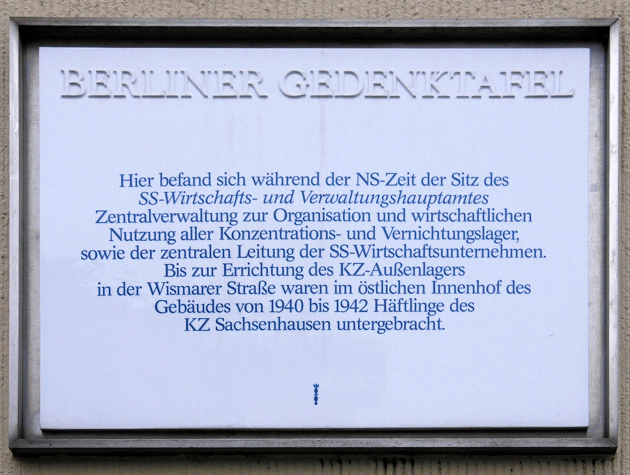 Berlin memorial plaque, SS Wirtschafts- und Hauptverwaltungsamt, Unter den Eichen 135, Berlin-Lichterfelde, Germany Koordinate:52°27′9″N 13°18′47″E / 52.4525°N 13.31306°E